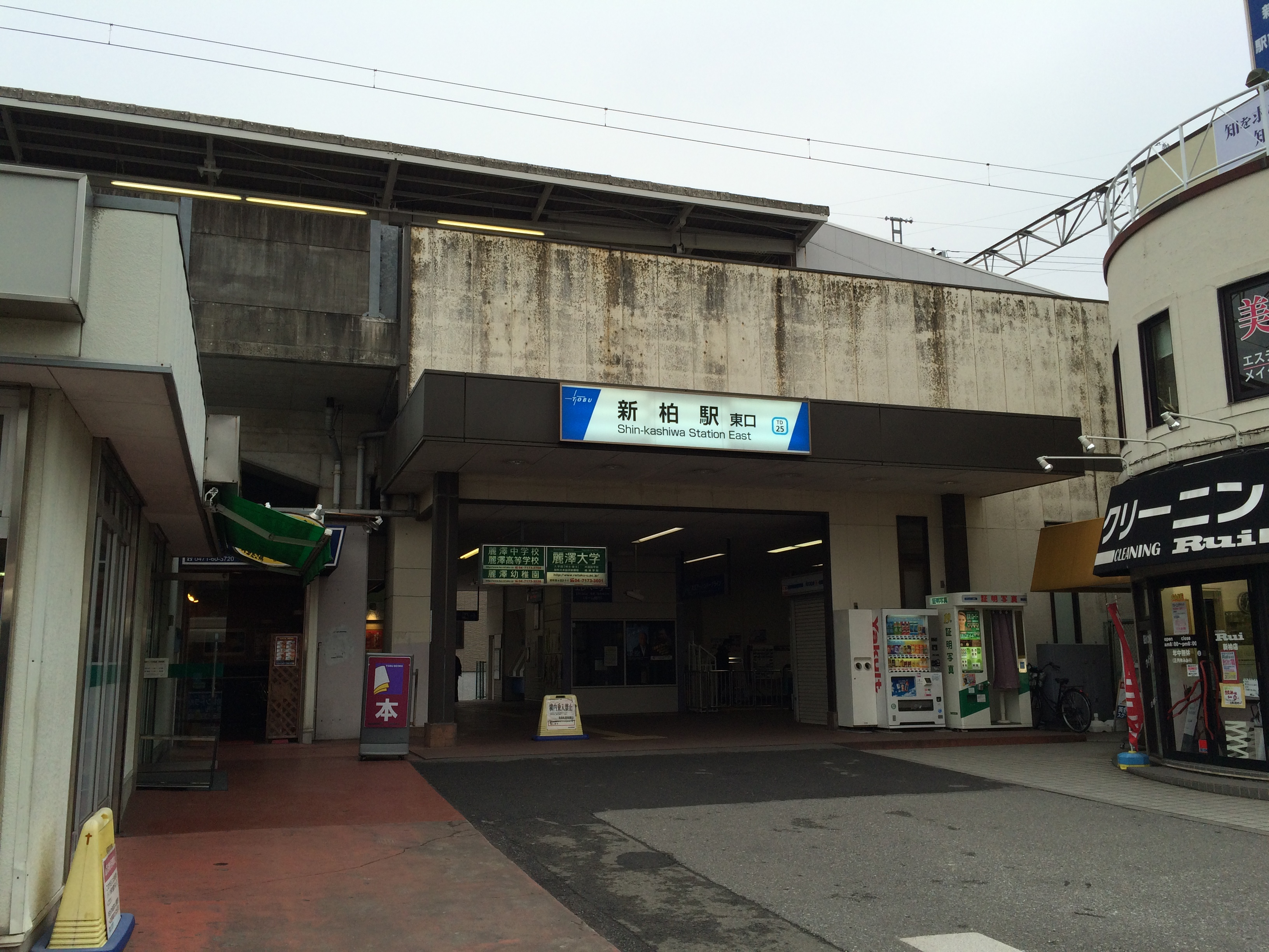 The east entrance to Shin-Kashiwa Station on the Tobu Urban Park Line